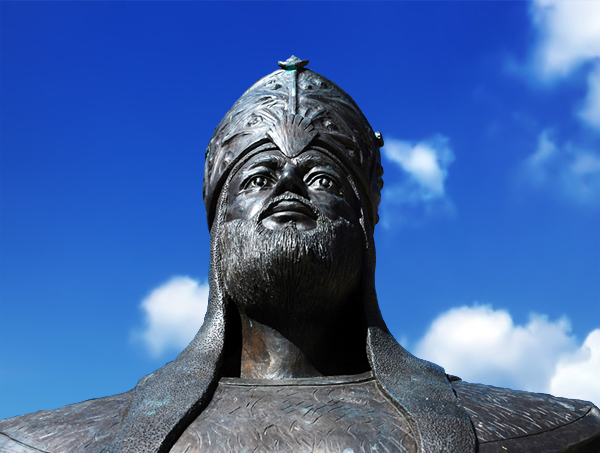 Statue of Almanzor in Calatañazor, Spain